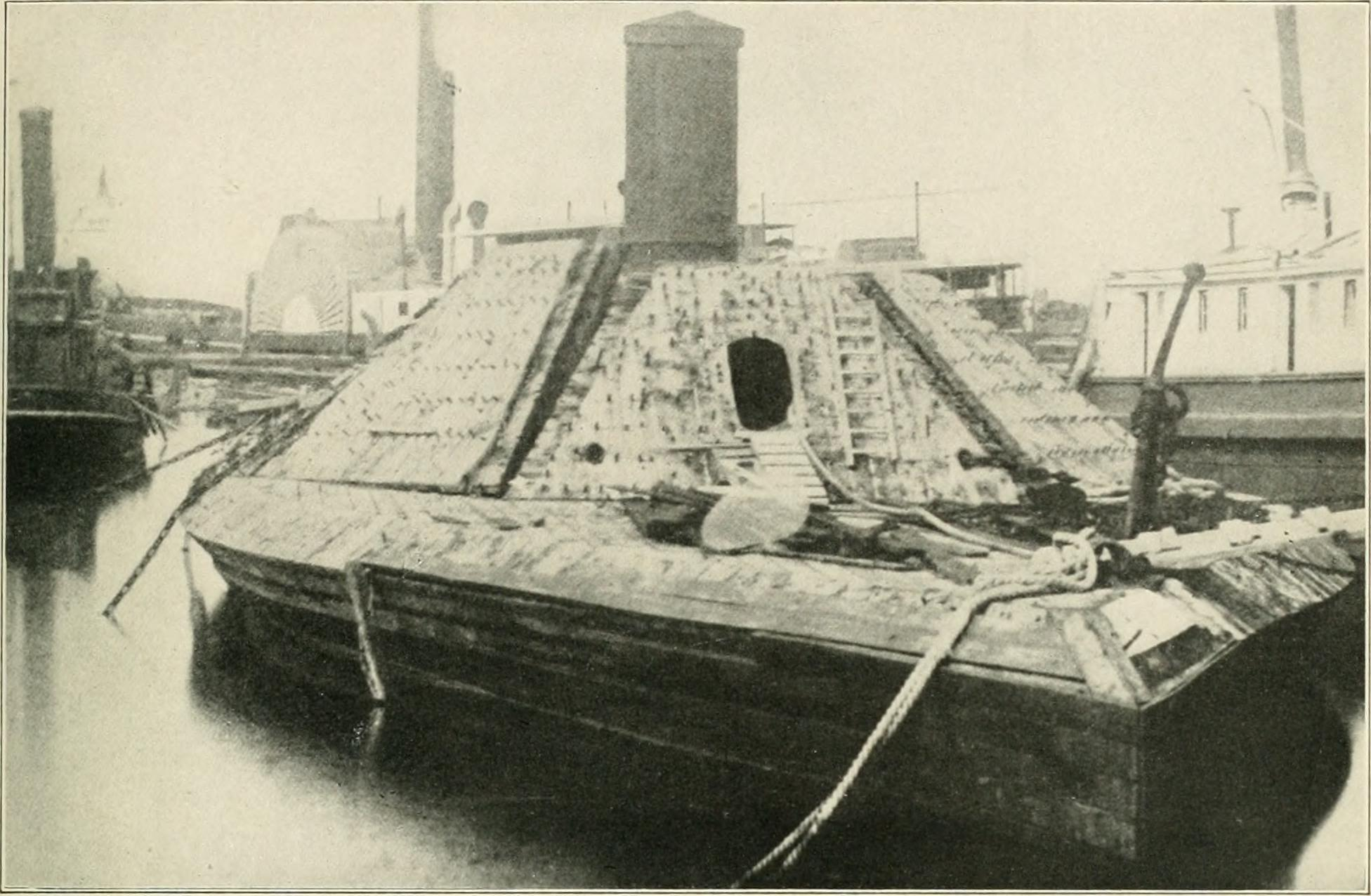 Title: The photographic history of the Civil War : thousands of scenes photographed 1861-65, with text by many special authorities Year: 1911 (1910s) Authors: Miller, Francis Trevelyan, 1877-1959 Lanier, Robert S. (Robert Sampson), 1880- Subjects: United States -- History Civil War, 1861-1865 Pictorial works United States -- History Civil War, 1861-1865 Publisher: New York : Review of Reviews Co. Text Appearing Before Image: ' Text Appearing After Image: COPYRIGHT, )9n, HEVIEW OF REVIEWS CO. REMARKABLE PHOTOGRAPHS OF CONFEDERATE RAMS—THE ALBEMARLE THE CAPTURED RAMS These pictures are remarkableas being among the scantremaining photographic evi-dence of the efforts made bythe Confederacy to put a navyinto actual existence. TheAlbemarle was built at thesuggestion of two men whoseexperience had been limited tothe construction of flat-boats.Lender the super\ision of Com-mander James W. Cooke,C. S. N., the vessel was com-pleted; and on April 18, 1864.she started dorni the river,with the forges and workmenstill aboard of her, completingher armor. Next day sliesank the Southfield. Inthe picture she is in Federalhands, having been raised after